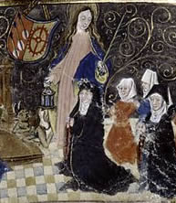 Cropped from a Gradual of 1494, Netherlands. A depiction of "Anne, the Virgin and Child, adored by St. William of Maleval presenting a group of men, and by St. Gudula" ( Evident are the typical iconographic attributes of Saint Gudula: holding a lantern which a demon endeavors to extinguish.